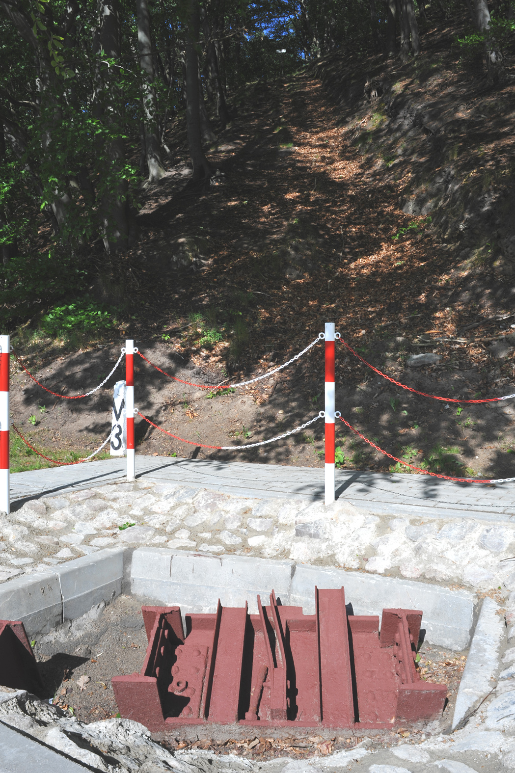 V3 test area Zalesie near Międzyzdroje, base construction of multi-charge principle cannon emplacement nord (shortened version); Farther Pomerania, Poland.